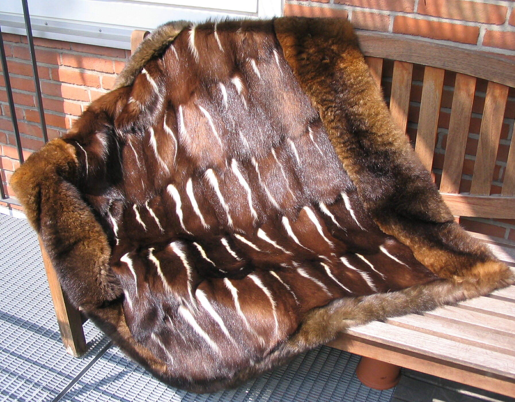 Carpet made of skunks and New Zeeland possum skins